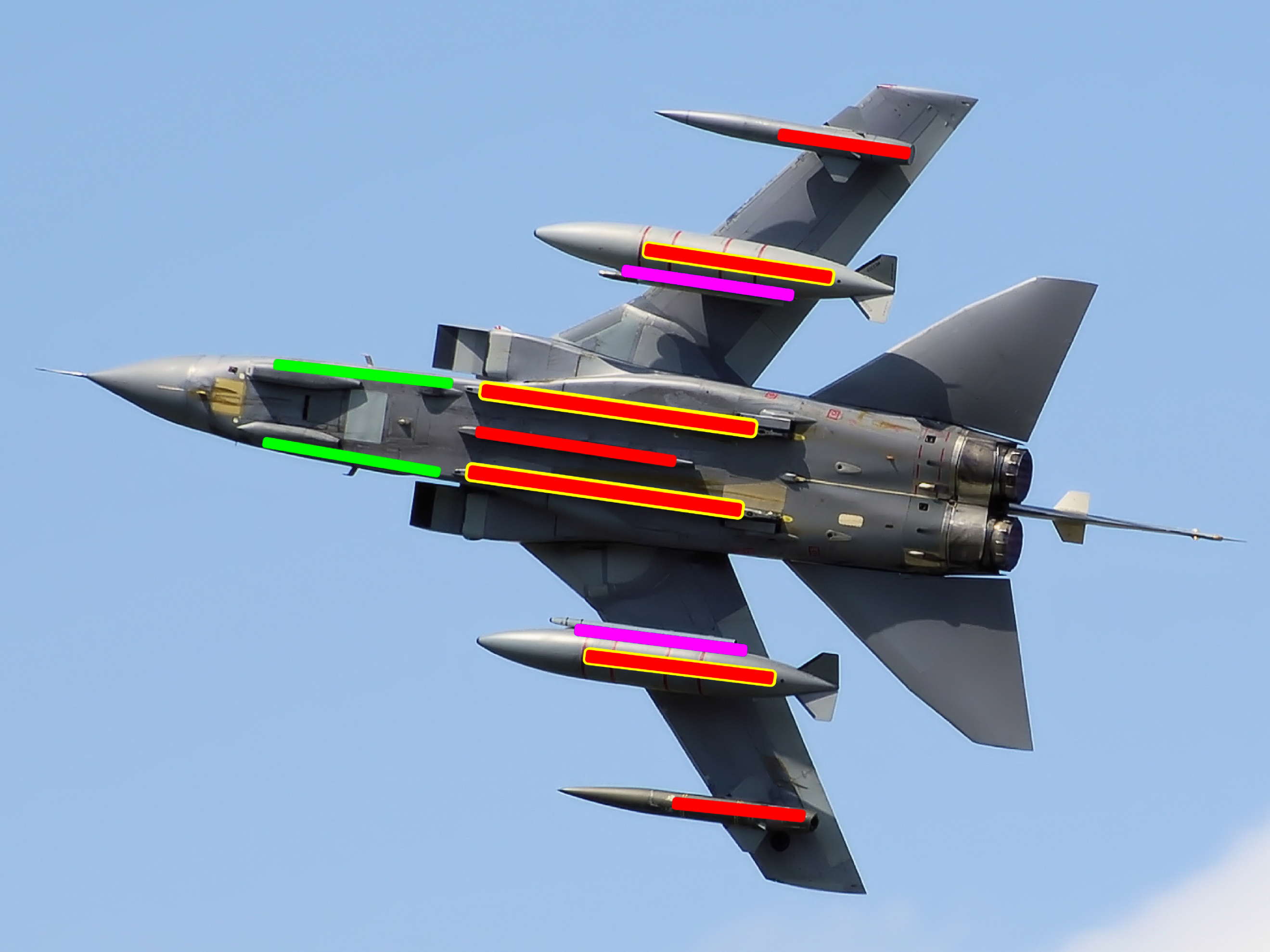 Derivative of File:Tornado gr4 za597 kemble arp.jpg. Original description: Panavia Tornado GR4 (ZA597, fin code 063)) with wings swept, at Kemble Air Day 2008, Kemble Airport, Gloucestershire, England.